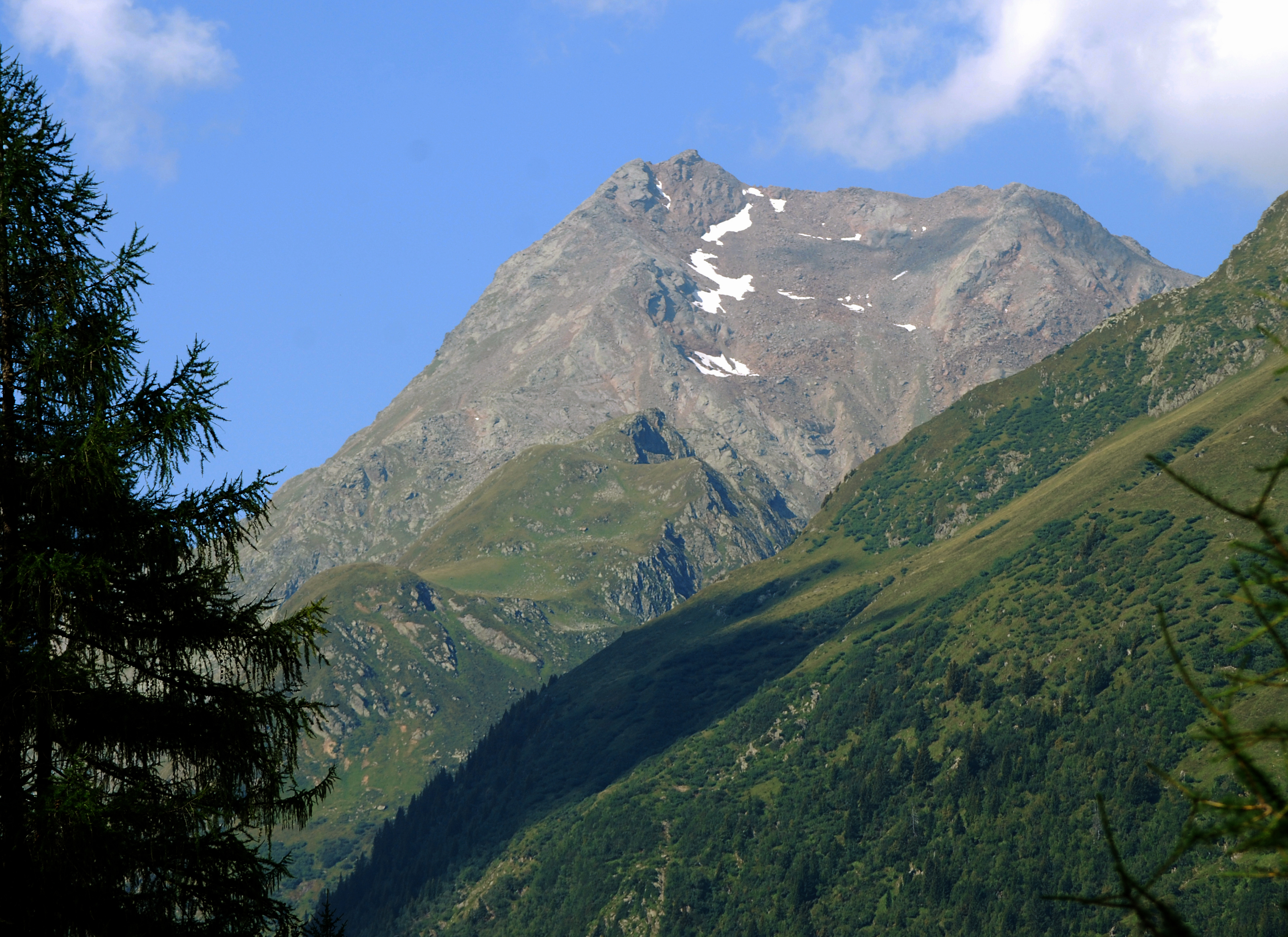 Äußere Wetterspitze 3070m from ENE